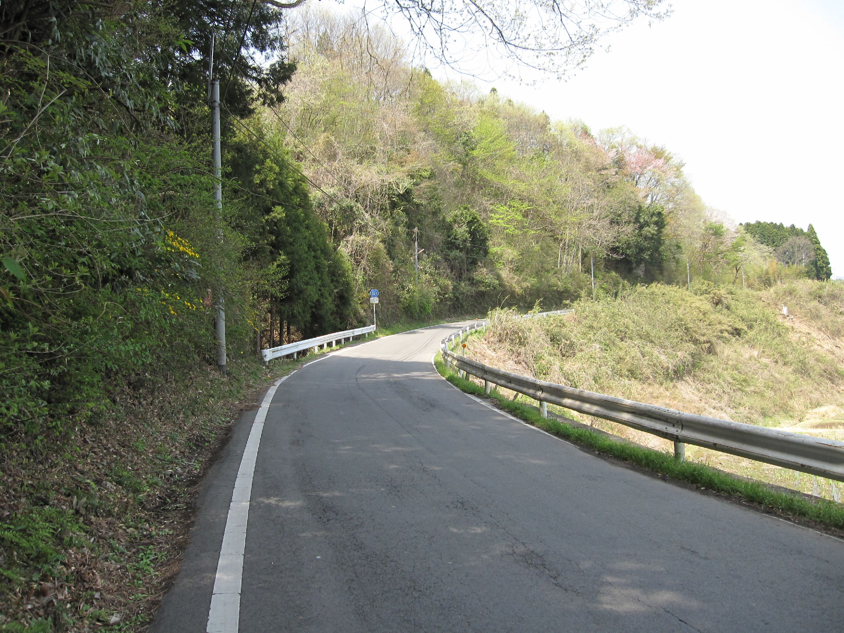 Tochigi prefectural road No.224 on Nakagawa town